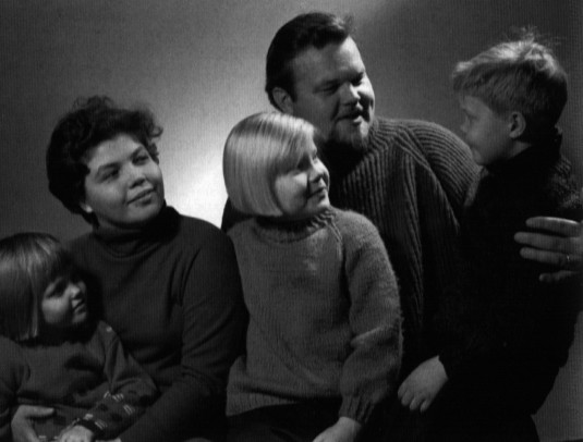 The Finnish bass singer Martti Talvela (1935–1989) with his family.